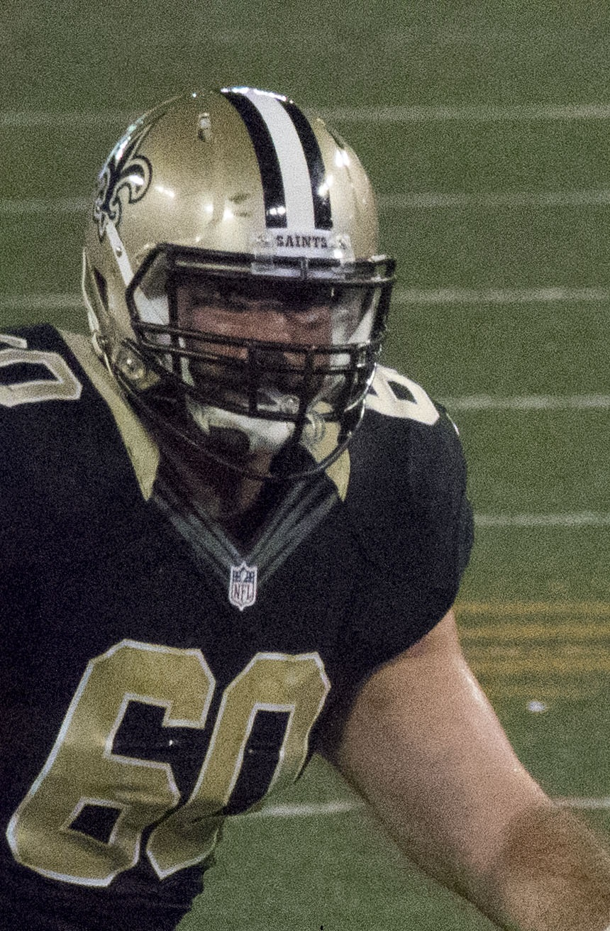 Saints at Ravens 8/13/15